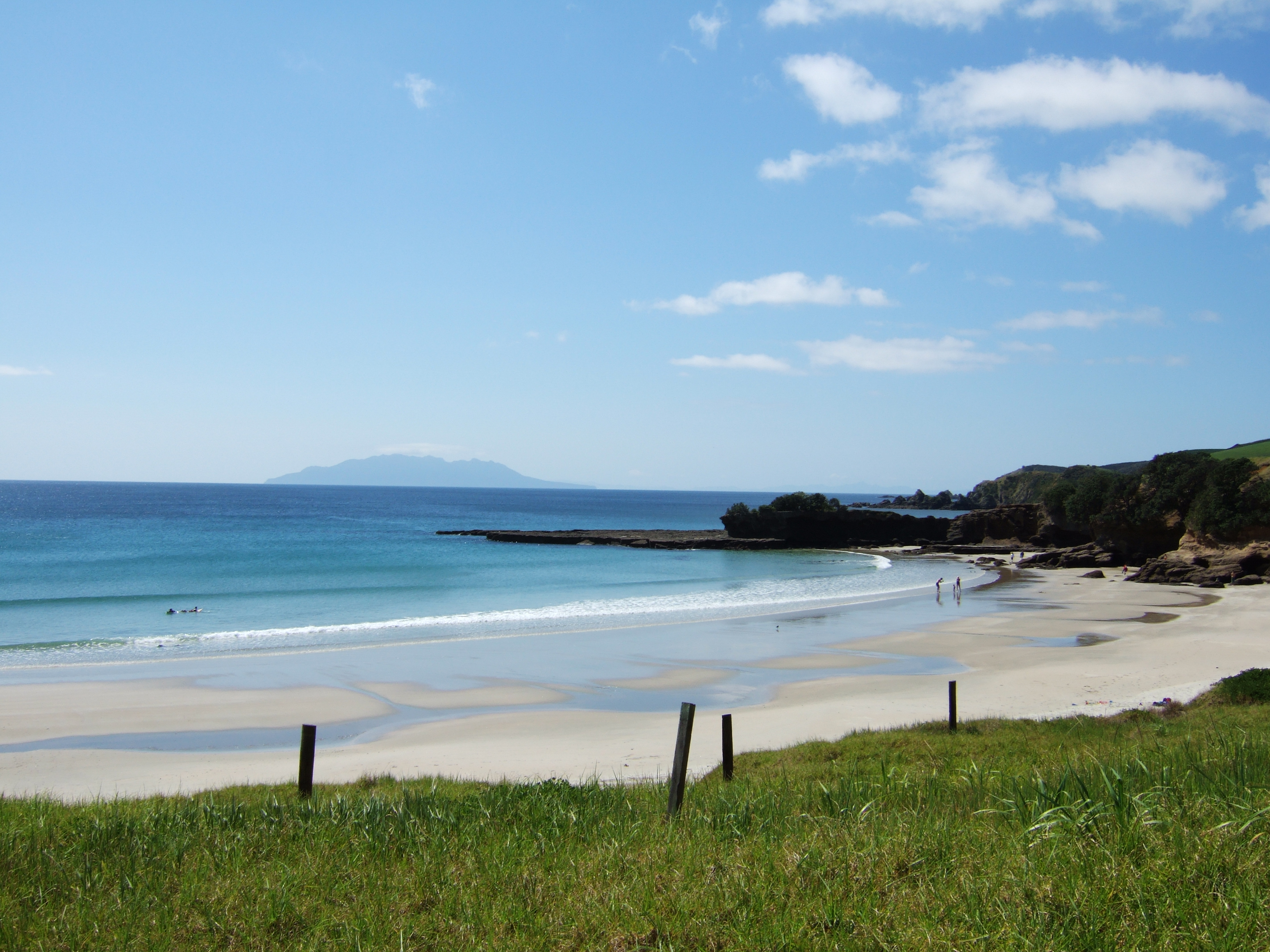 Tawharanui beach